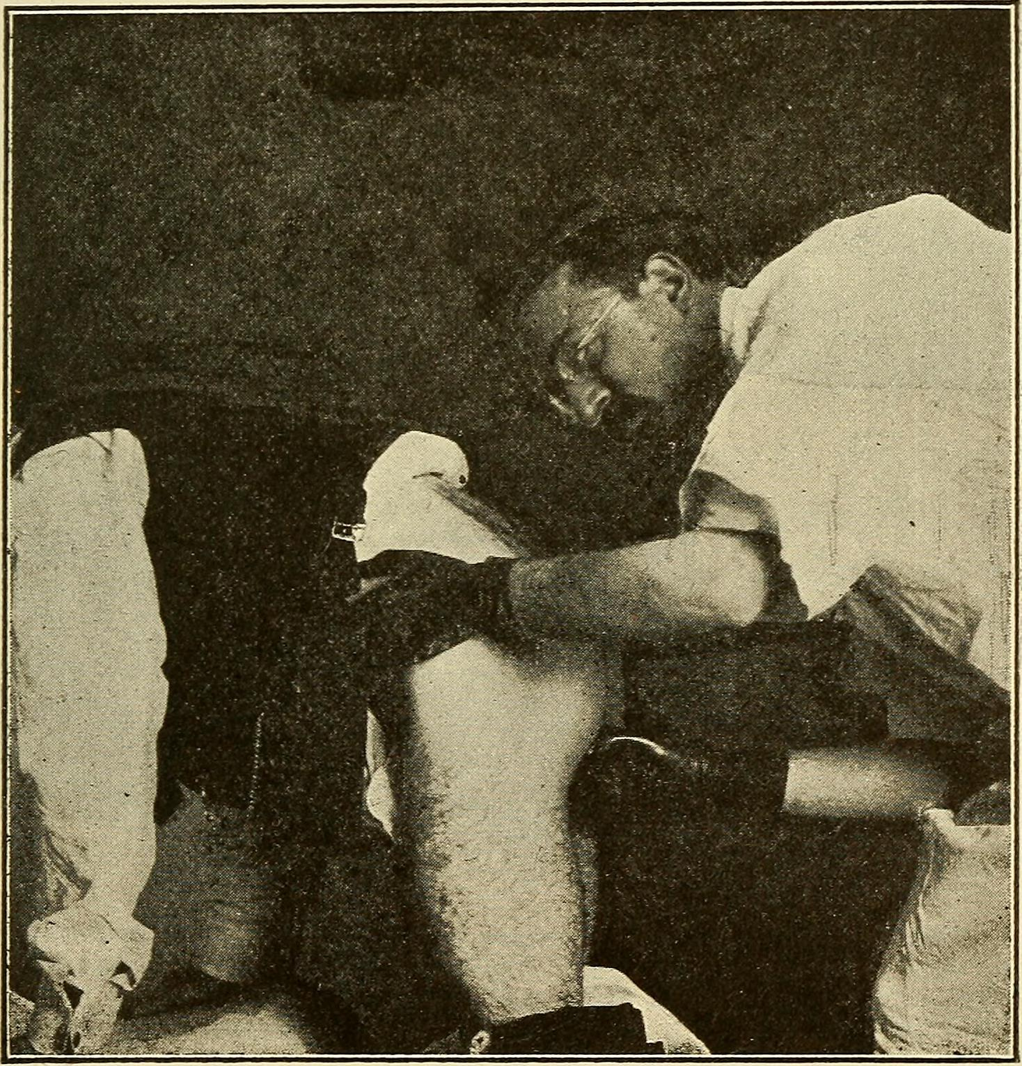 Title: Gonorrhea in the male : a practical guide to its treatment Year: 1911 (1910s) Authors: Wolbarst, A. L. (Abraham Leo), 1872- Subjects: Gonorrhea Gonorrhea Publisher: New York : International Journal of Surgery Text Appearing Before Image: Fig. 23. Chronic posterior urethritis: G 1, clean washings from an-terior urethra; G 2, control glass; G 3, turbid urine passed by patient. Text Appearing After Image: Fig. 24. Correct attitude in examining the prostate. 112 Gonorrhea in the Male. groin of the patient, and moderate pressure appliedto the abdominal muscles. This helps to bring thevesicles nearer to the examining fmger, and at the